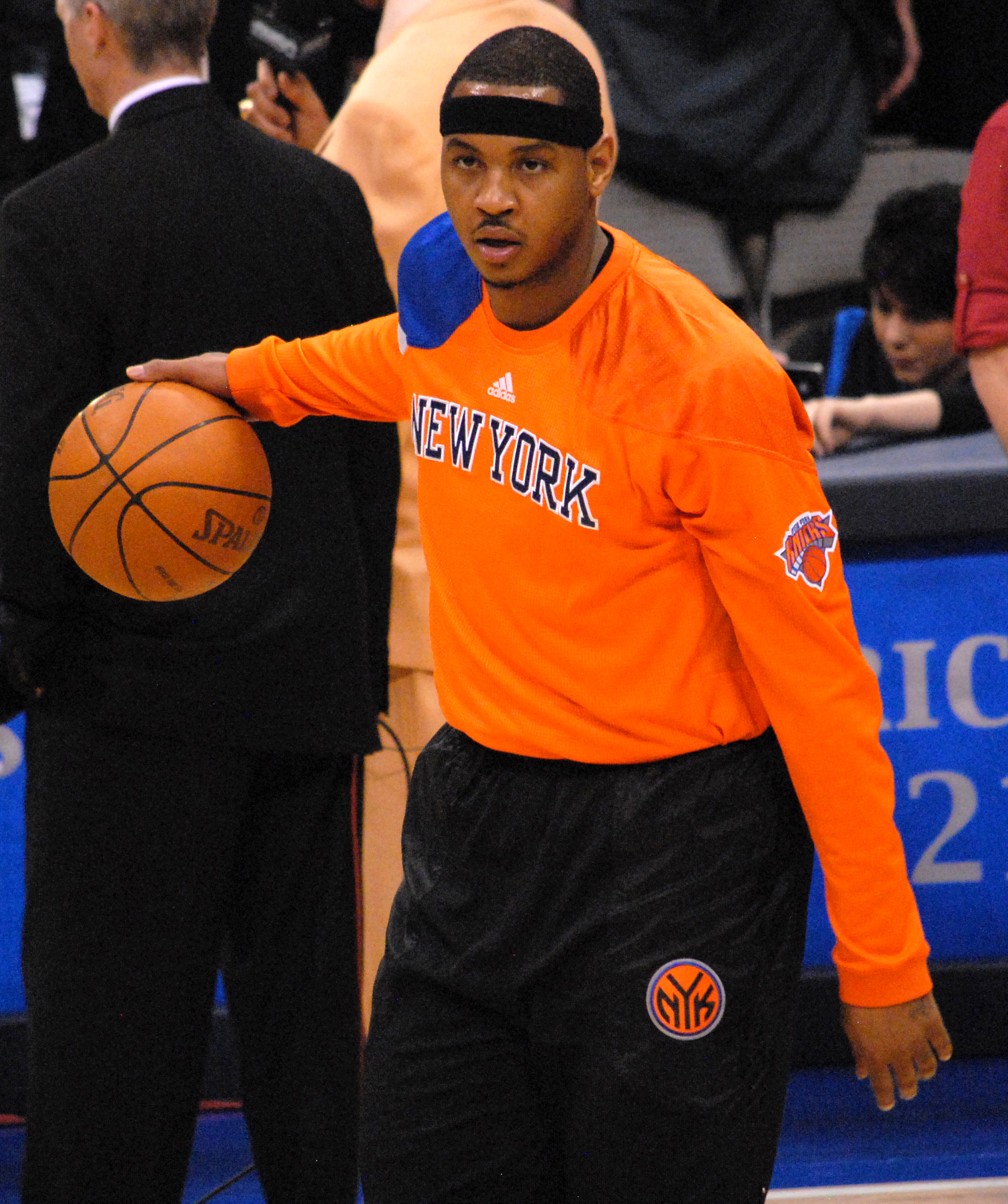 Carmelo Anthony with the New York Knicks